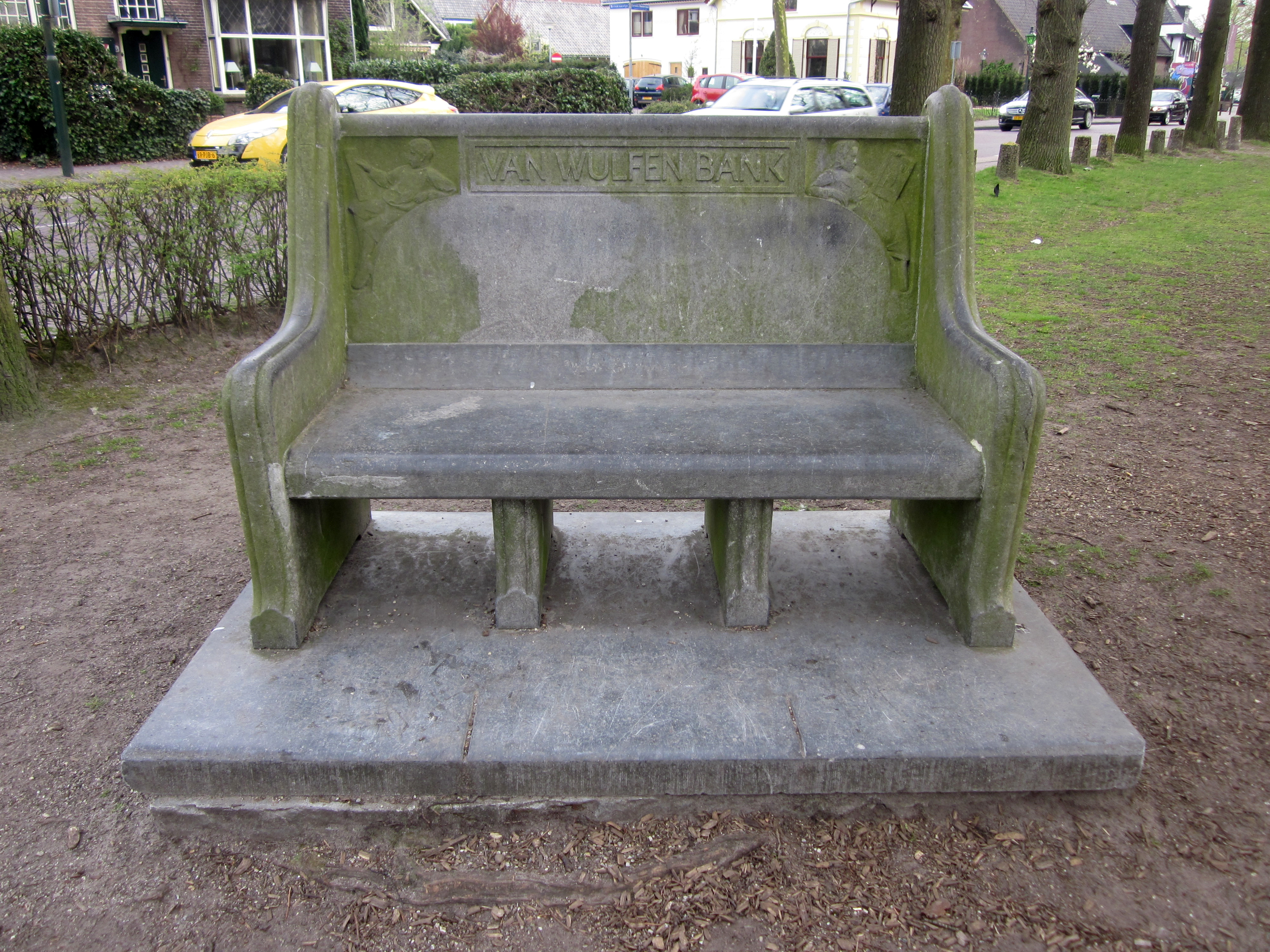 Streetfurniture in remembrance of teacher Johannes van Wulfen, made by Eduard Jacobs in 1912. The boy on the left is Gerrit Wiegers, the girl on the right is Lijsje Calis.